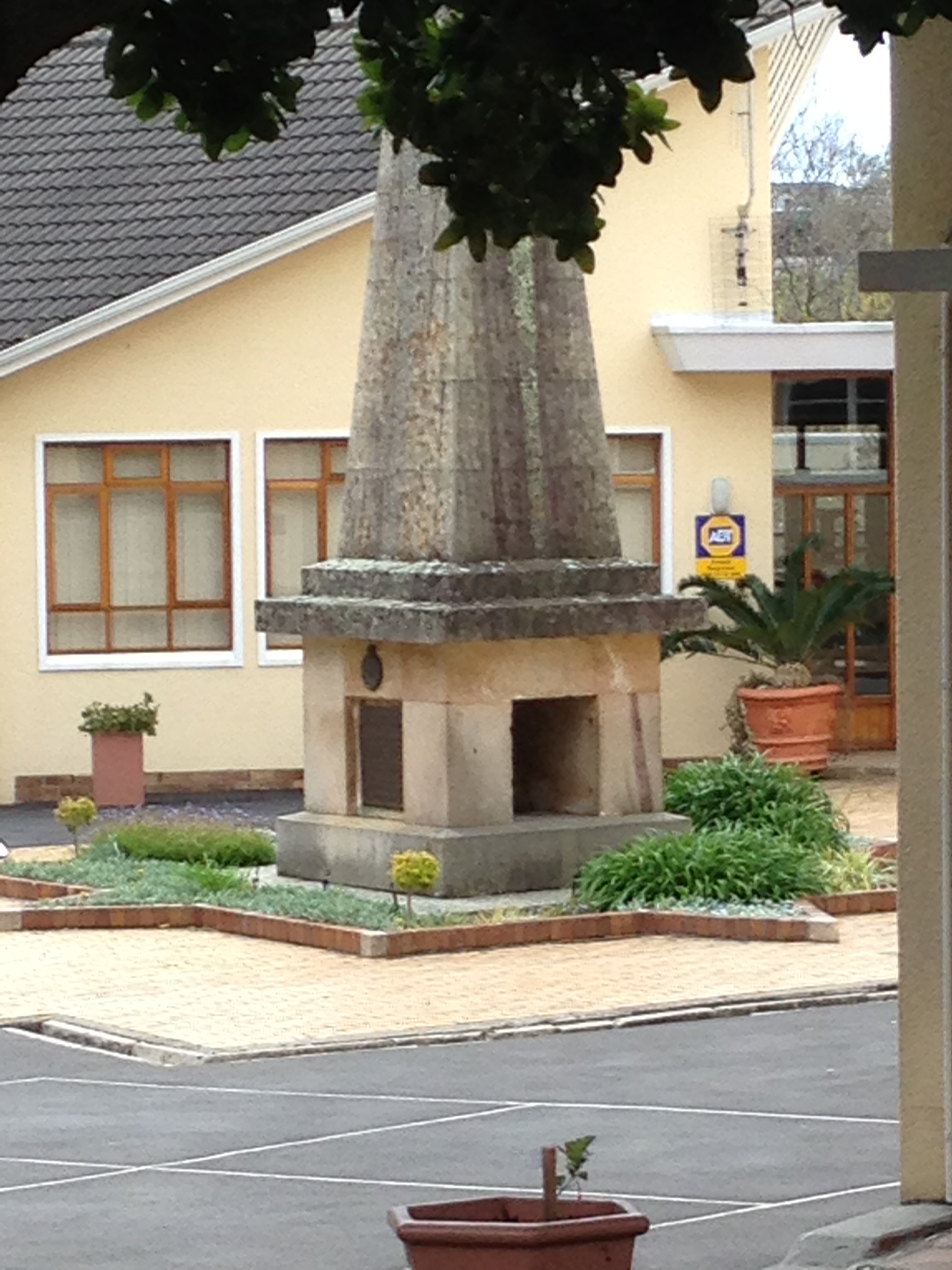 Herschel Memorial Obelisk, Grove Primary School, Feldhausen Road, Claremont, Cape Town Beyond Newlands lies the suburb of Claremont. The Herschel monument stands in Grove Avenue on what was formerly the Feldhausen property. Sir John F. W. Herschel (1792-1871) was a famous British astronomer, the only son of an equally famous astronomer, Sir Type of site: School . This media shows a South African Protected Site with SAHRA file reference 9/2/111/0034.